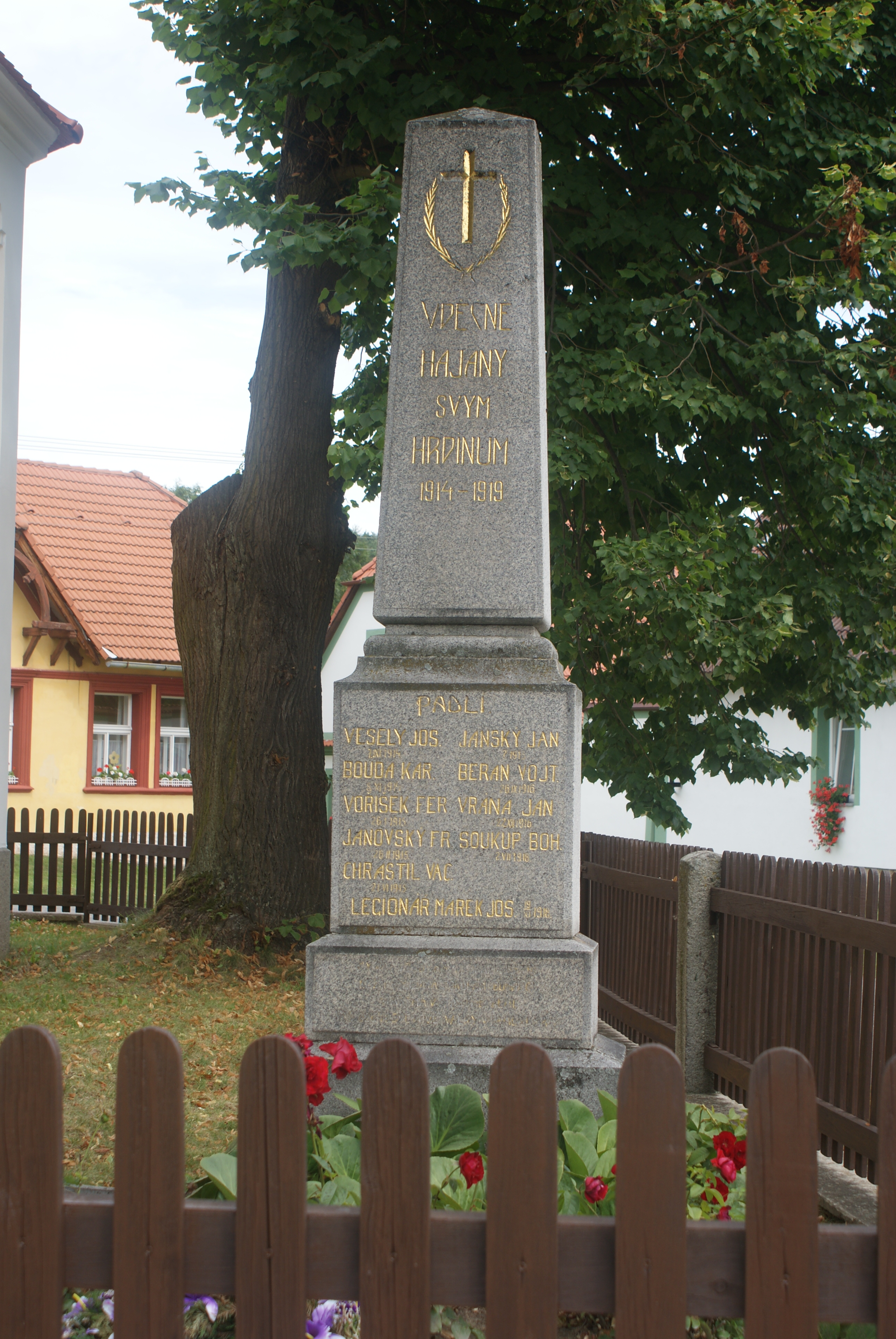 WWI memorial next to the Chapel of St Anne in Hajany, Strakonice District, Czech Rep.